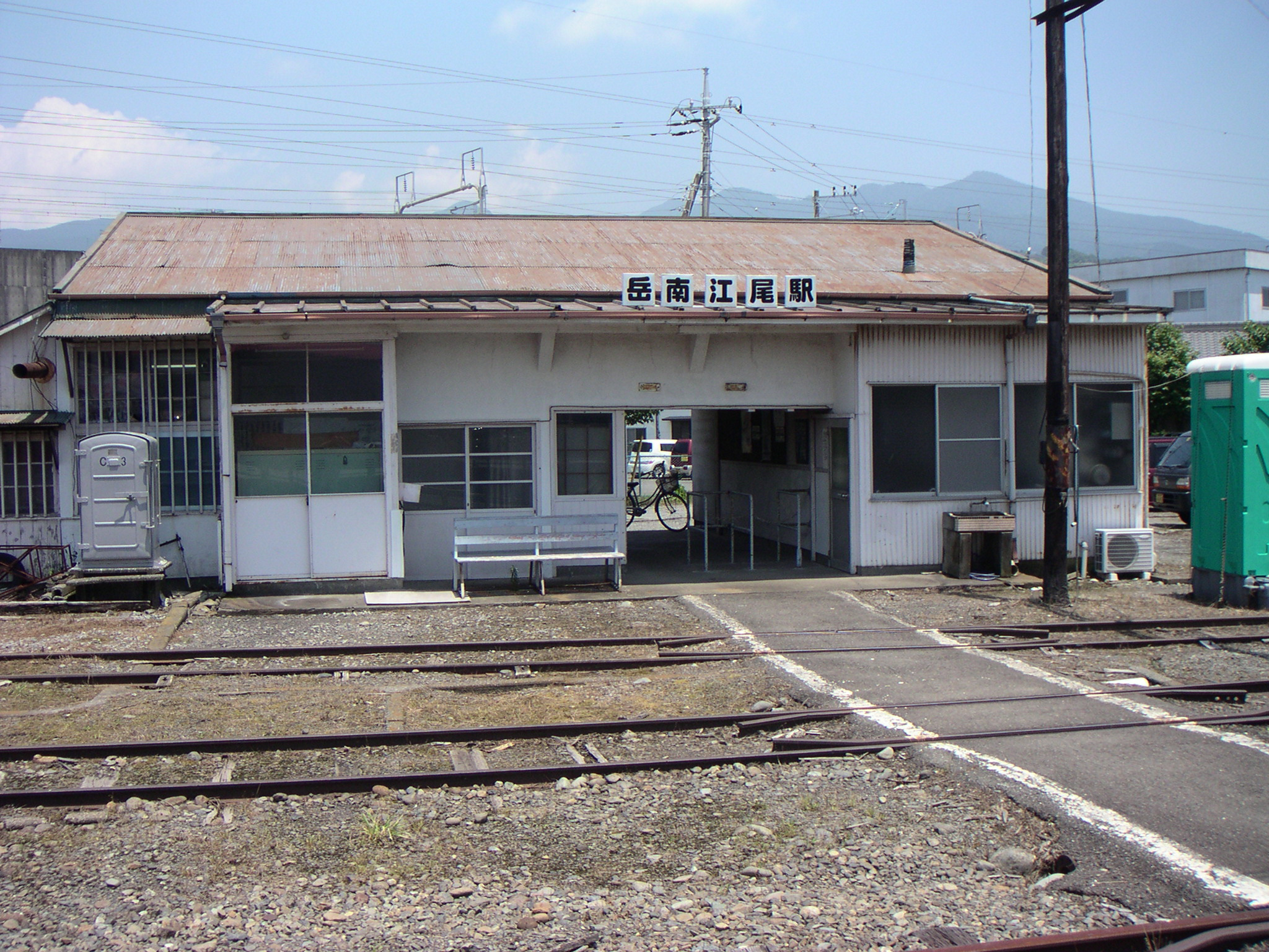 Building of Gakunan-enoo Station